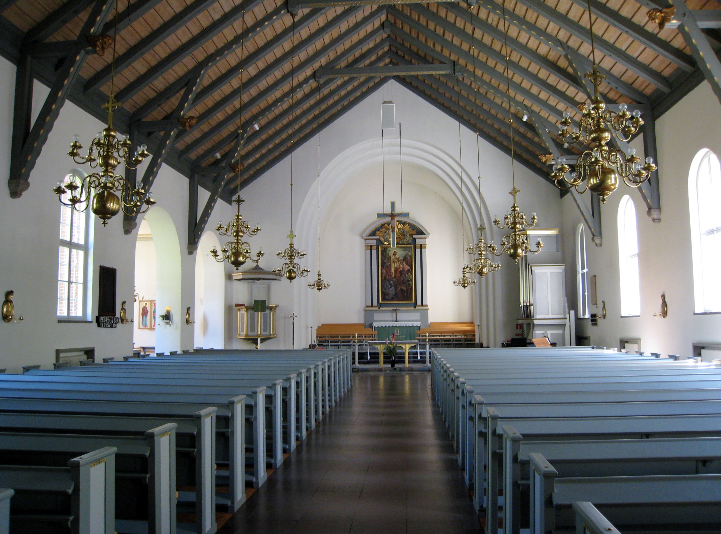 Nybro Church. Interior.